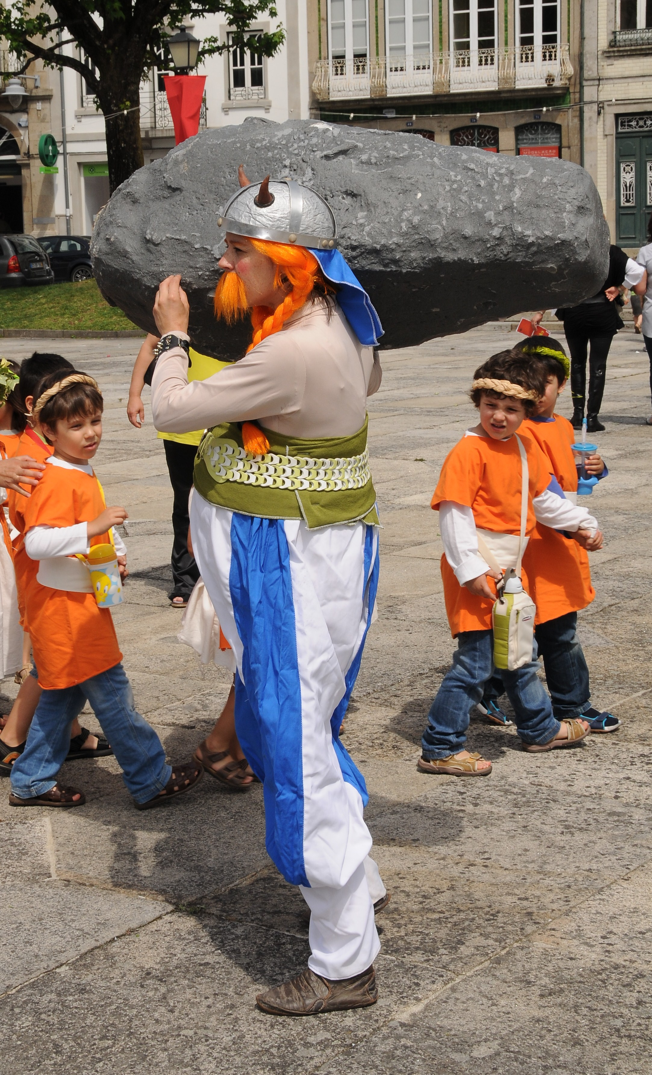 An actor dressed as Obelix in Roman Market, Braga, Portugal.